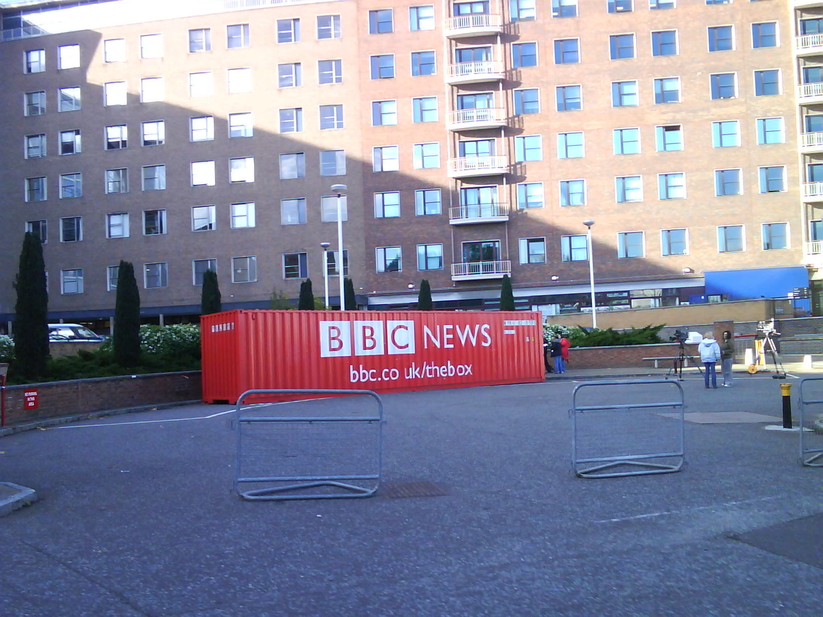 BBC News: The Box